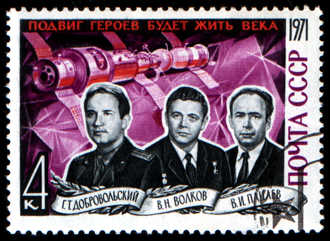 USSR postage stamp commemorating the perished crew of the Soyuz 11 mission, 1971, 4k. The caption reads "A feat by heroes will live on for centuries".